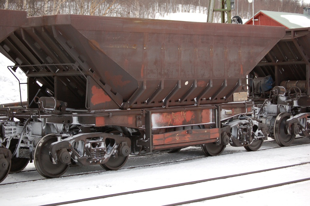 Swedish type Uad ore wagon, photographed on the Malmbanan.